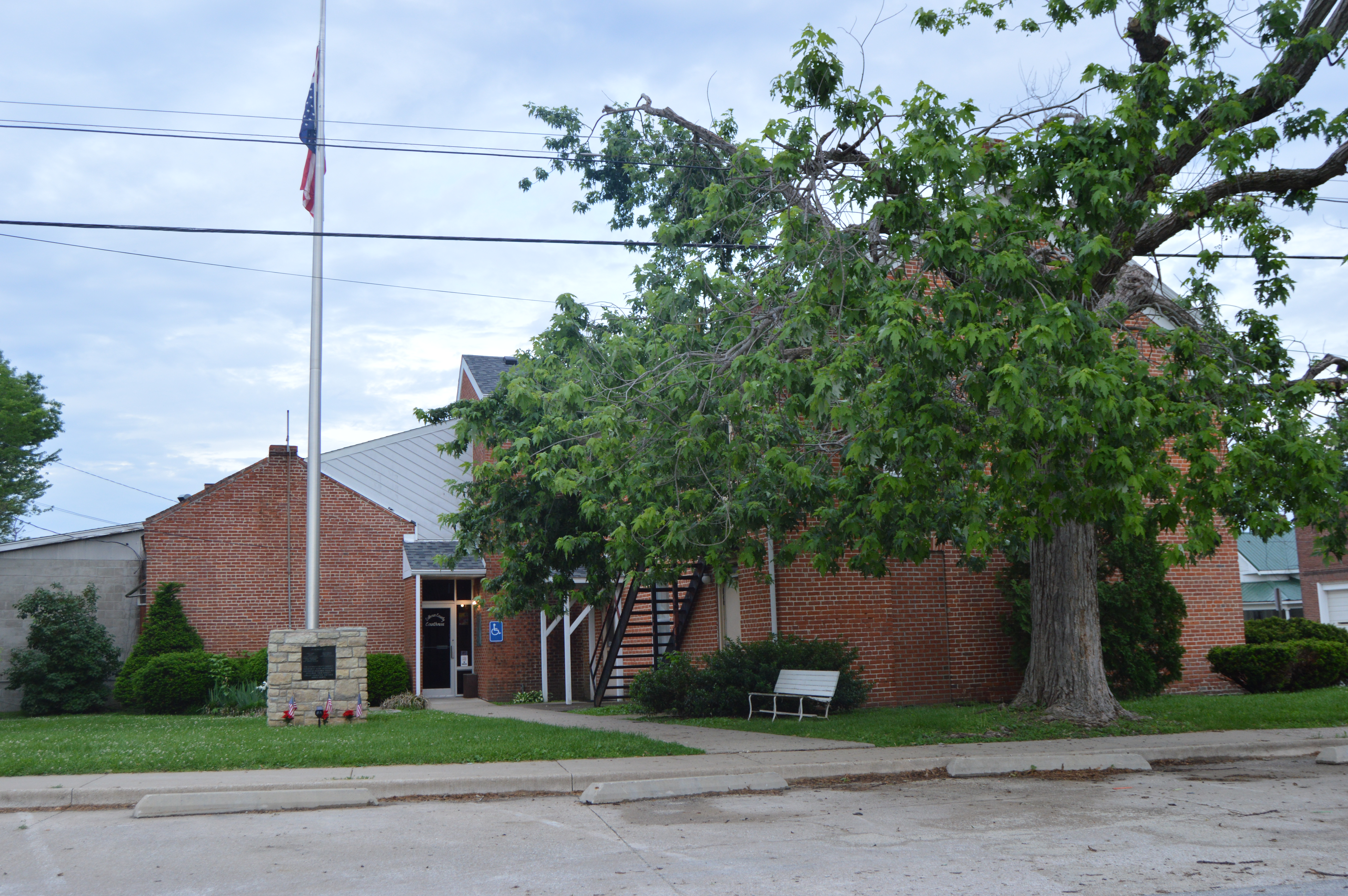 Western side of the Calhoun County Courthouse, located on the northeastern corner of the junction of County and Main Streets in Hardin, Illinois, United States. It was built in 1848 and later expanded.